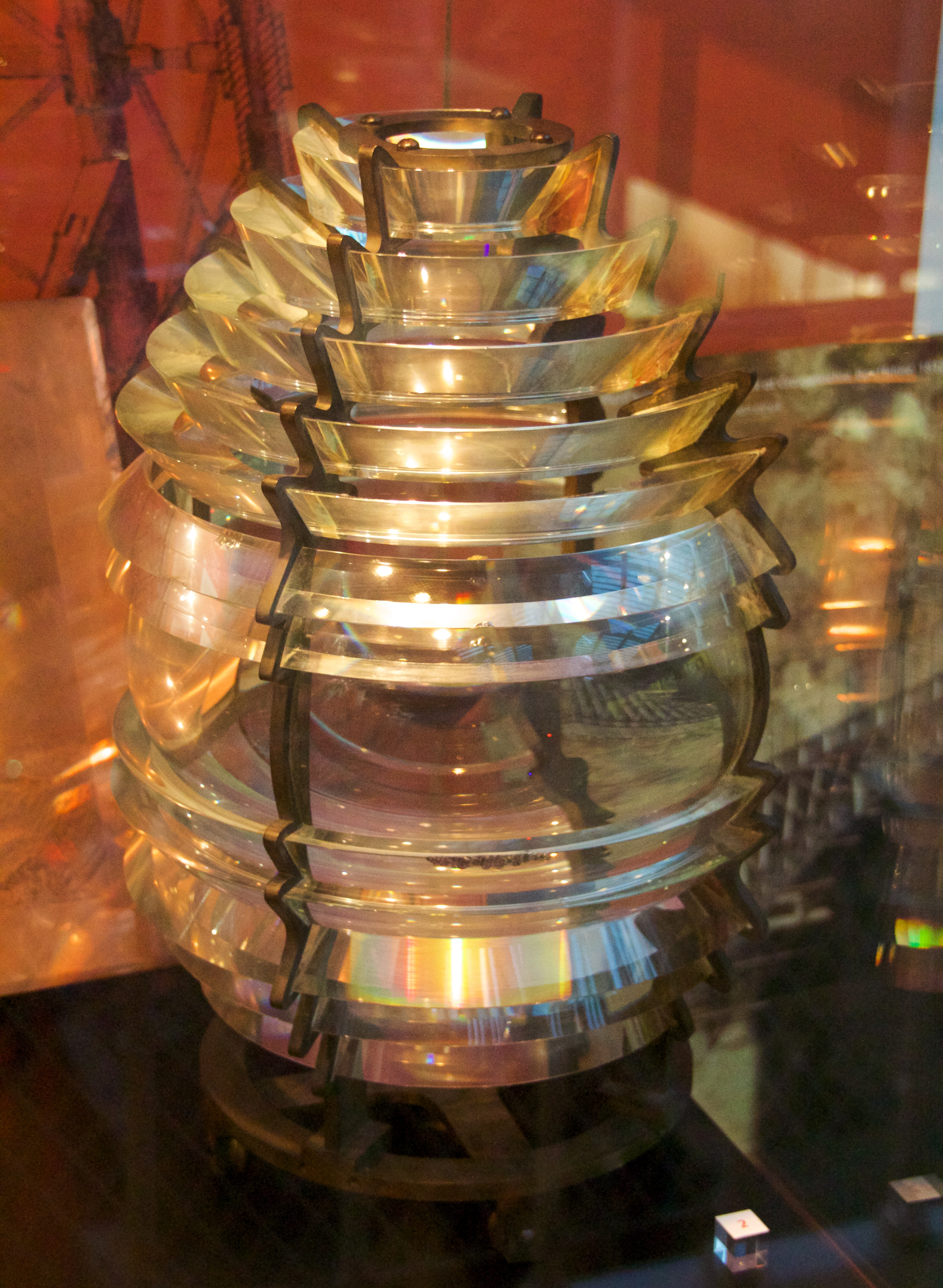 Small Fresnel lens. This lens was developed as a harbour light and used by the Natural Philosophy class of the University of Edinburgh. It was probably examined by Alan Stevenson. Small Fresnel lens, F Soleil, France, c1830. At the National Museum of Scotland, Edinburgh.